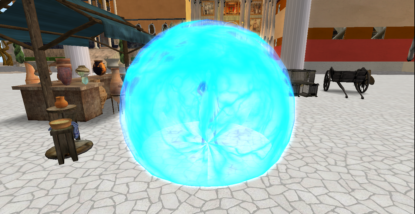 A picture of a person using a magical shield, which is a shield made of energy. Scientifically, it can also be seen as an, among its several names, energy shield, force field, force shield, and deflector shield, then it is a shield of energy. Such technology are often seen in science fiction. Picture taken in the virtual world Second Life.